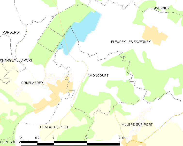 Map of French municipality